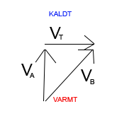 Thermal wind